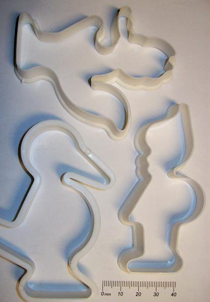 Ausstechformen aus Polypropylen, DDR ca. 1988